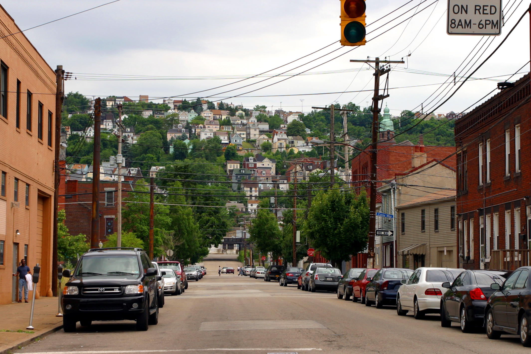 Southside Slopes neighborhood of Pittsburgh, Pennsylvania from East Carson Street. Taken in 2007.